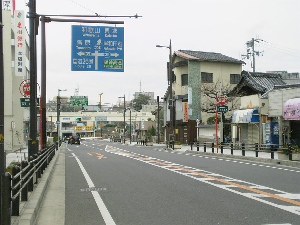 The Osaka Prefectural Road Route 204 at the Sakaimachi Intersection in Kishiwada City